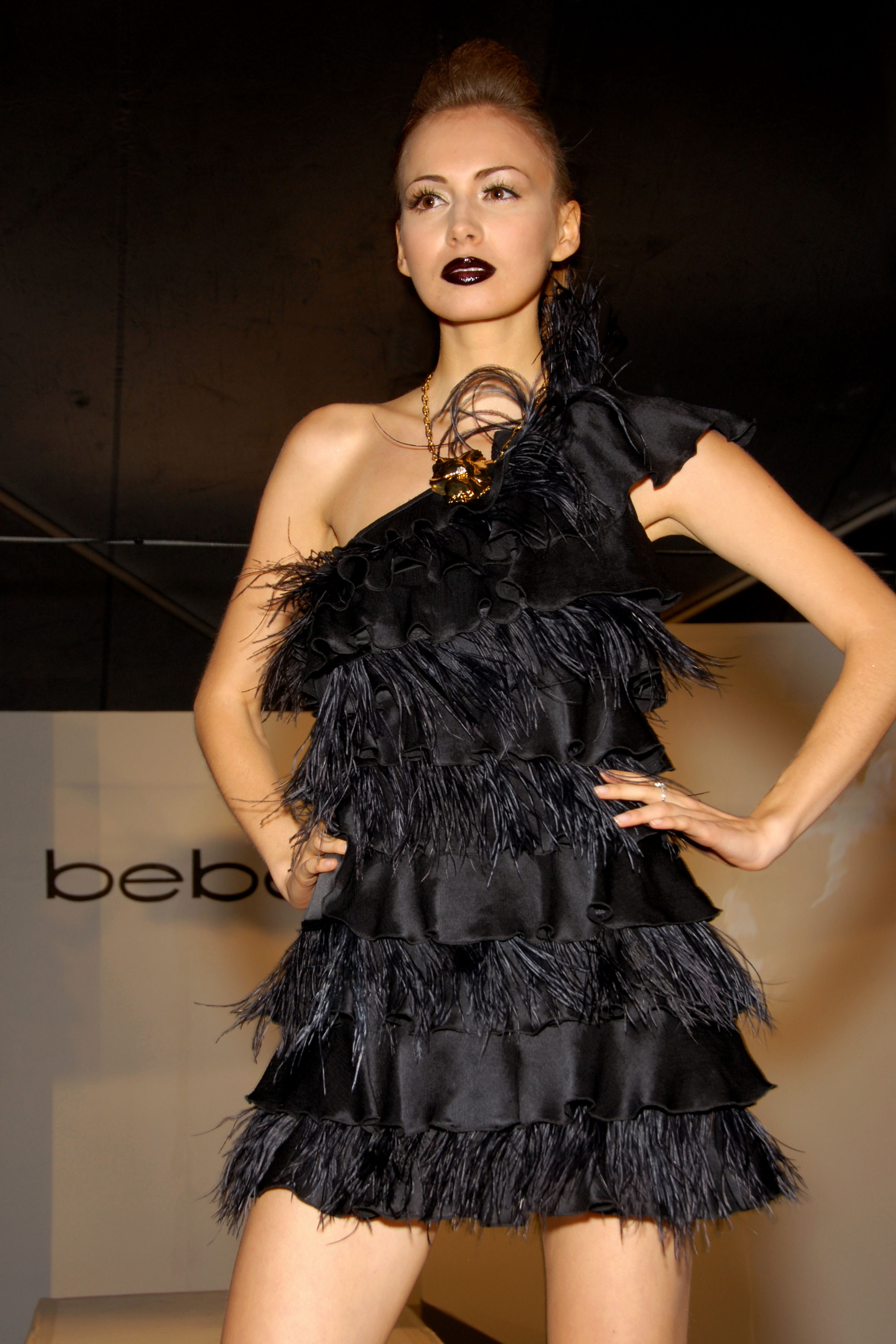 bebe Mini Dress - Photo by Glenn Francis of